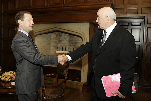 BARVIKHA, MOSCOW REGION. President of Russian Federation Dmitry Medvedev with Igor Smirnov, head of Transdniester.